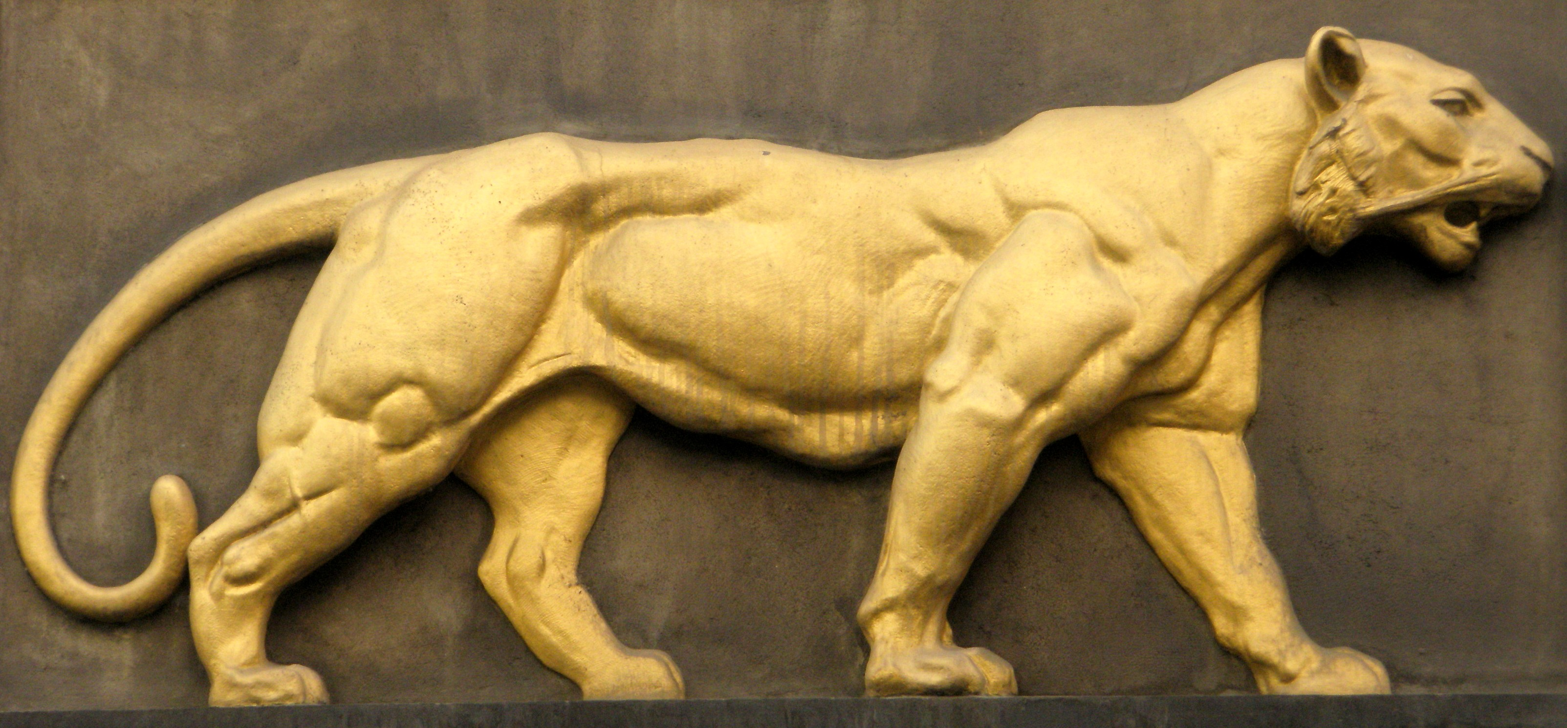 The relief of facade of the Pub for the Golden Tiger (u Zlatého tygra) in the old town of Prague, Czech Republic